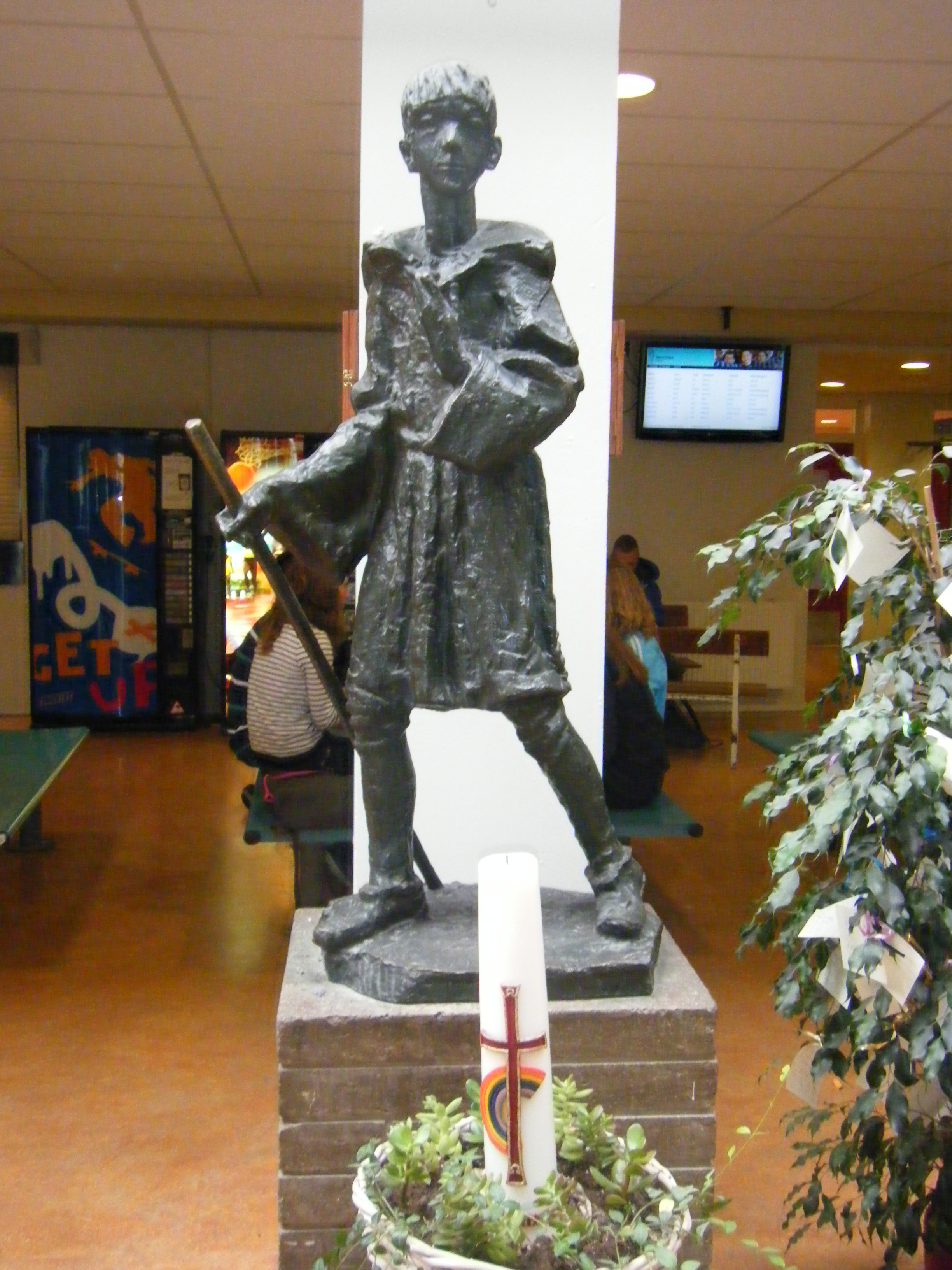 Statue of Stanislaus Kostka by Albert Termote. Stanislascollege Delft, The Netherlands